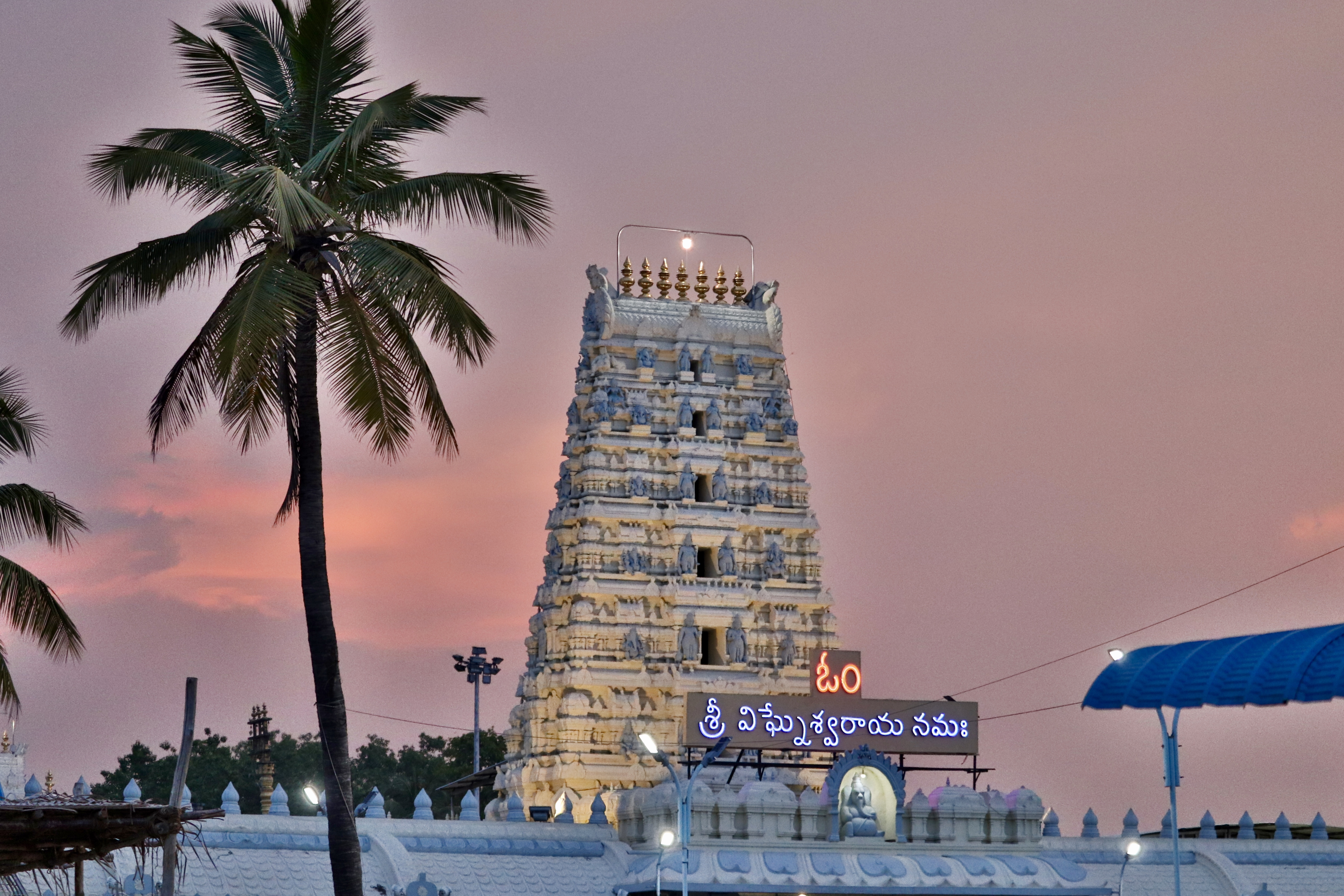 Galipgopuram of Kanipakam temple (May 2019)